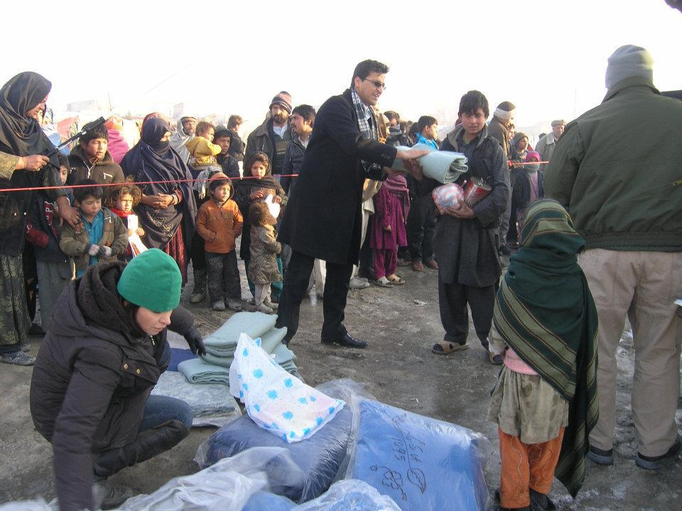 Mohammad Shafiq distributing humanitarian assistance to internal displaced people in Kabul during harsh winter